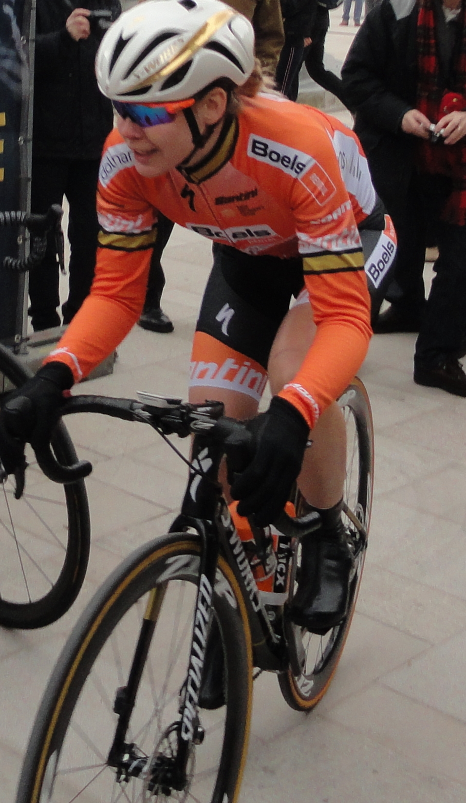 Anna van der Breggen at the start of RVV2018.